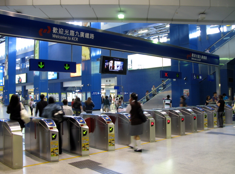 Fare gates at Tai Wai Station on the East Rail Line in Hong Kong. At the time the photo was taken the station was operated by KCRC; it has since been passed to MTRC.